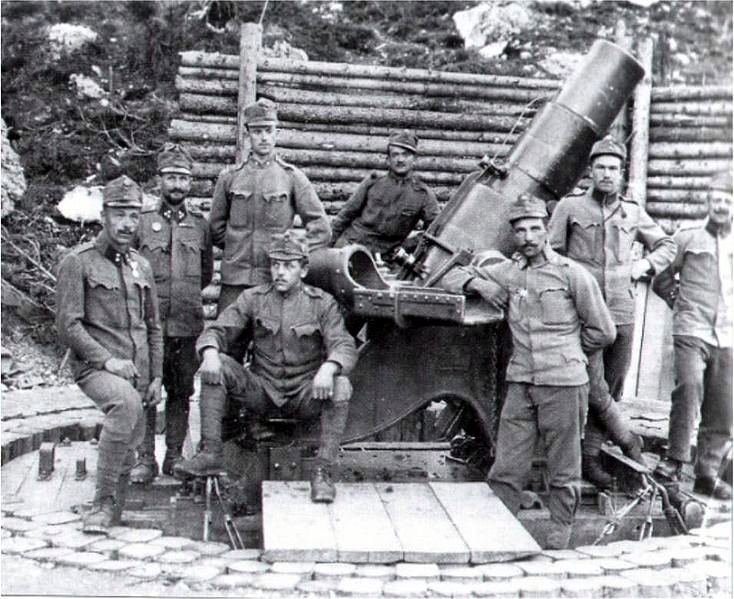 Gunners with Austro-Hungarian 24 cm M 98 Mortar.